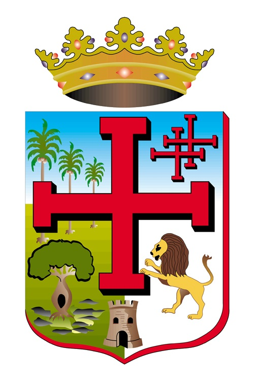 Coat of arms of the Bolivian department of Santa Cruz, and its capital city, Santa Cruz de la Sierra.